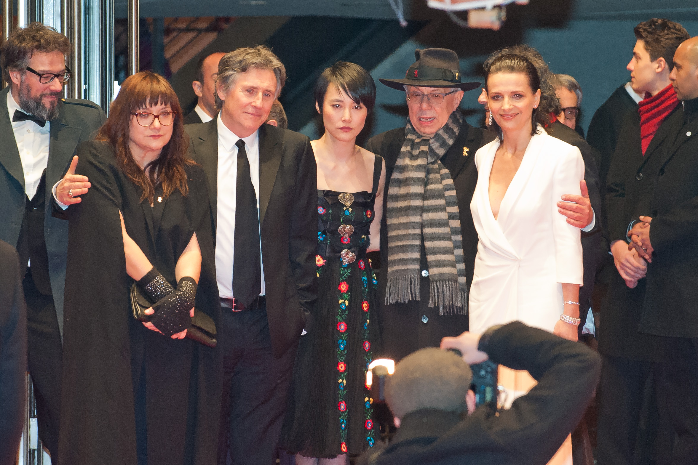 Members of the opening film NOBODY WANTS THE NIGHT (left to right): Directror Isabel Coixet (Spain), actor Gabriel Byrne, Rinko Kikuchi, festival director Dieter Kosslick, actress Juliette Binoche Opening of the 65th Berlin International Film Festival at the Berlinale Palast